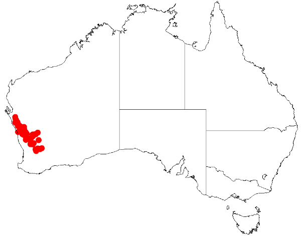 Scaevola hamiltonii occurrence data downloaded from Australasian Virtual Herbarium 12 May 2019